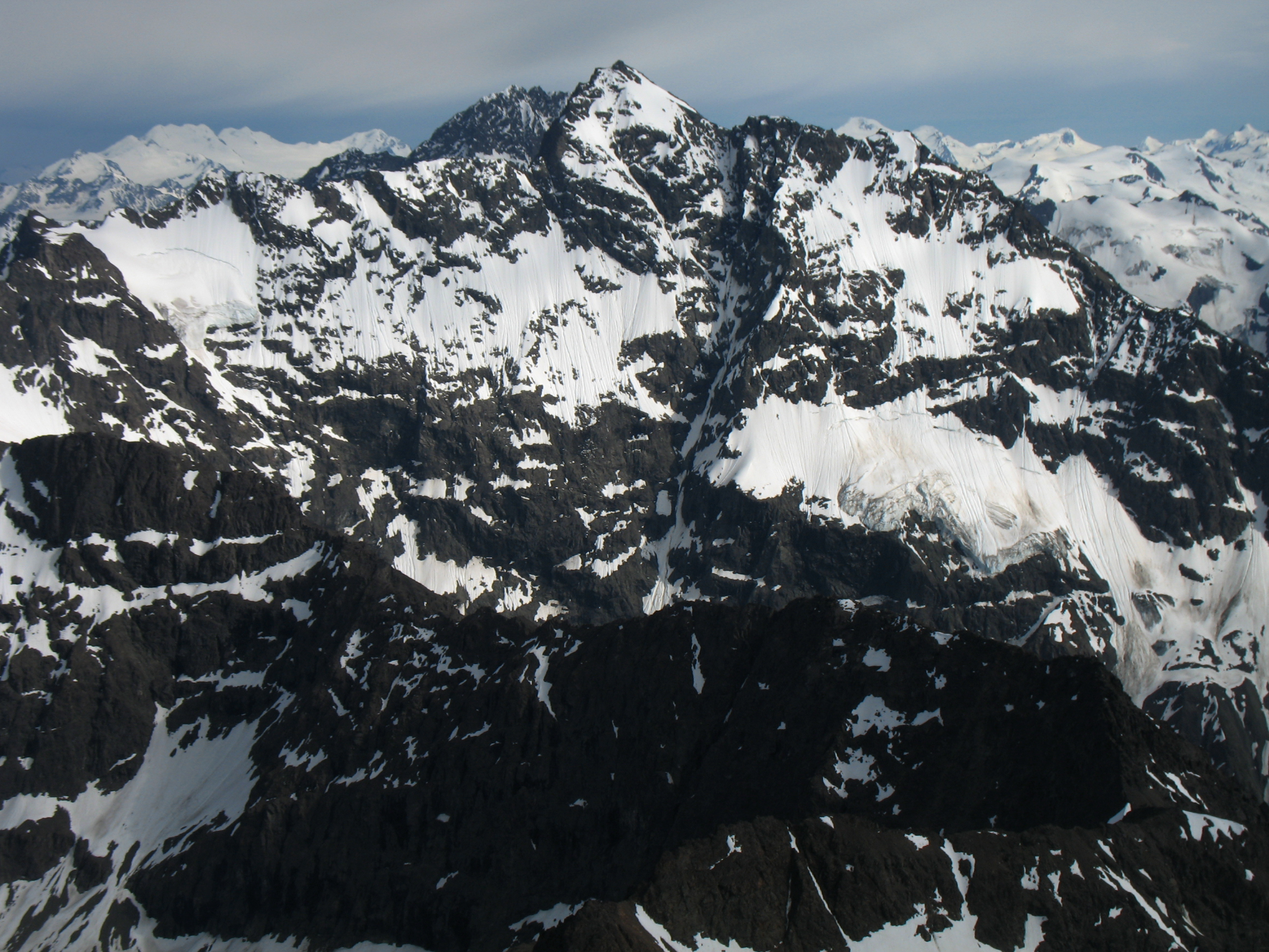 Bashful Peak, in the Chugach Mountains of Alaska, as viewed from the summit of Bold Peak